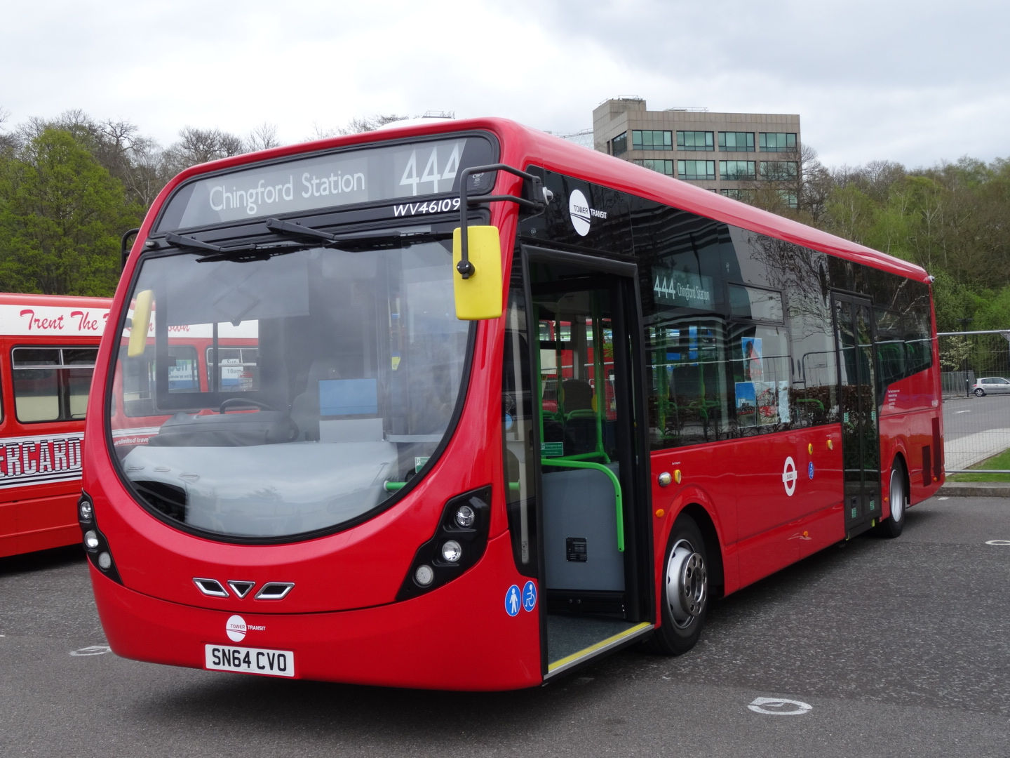 SN64 CVO